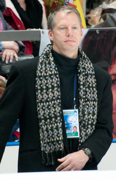 2011 Cup of Russia, short program.